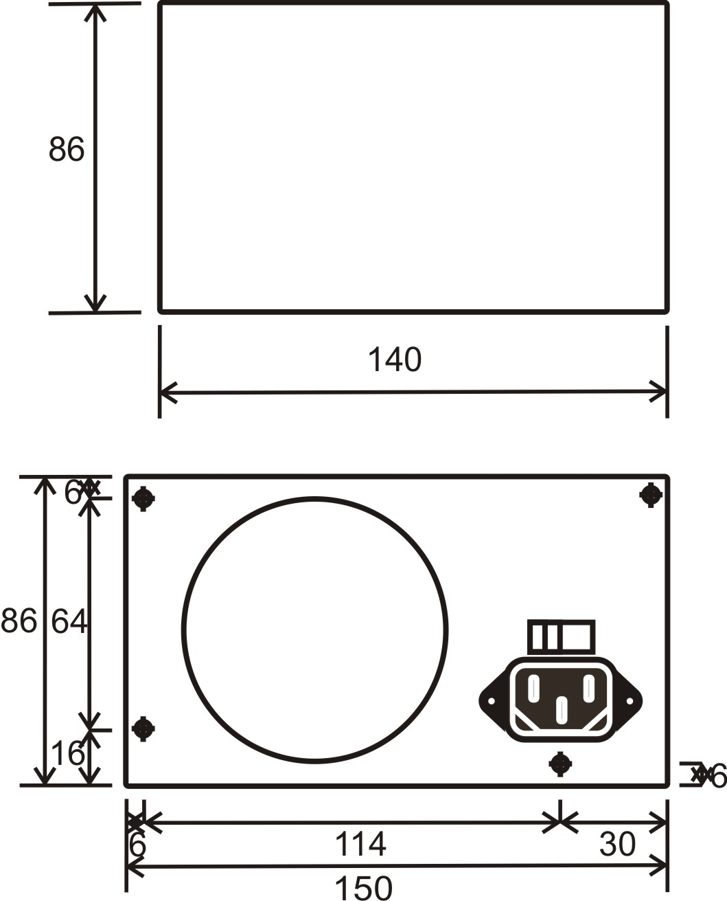 ATX PS size mounting point scheme